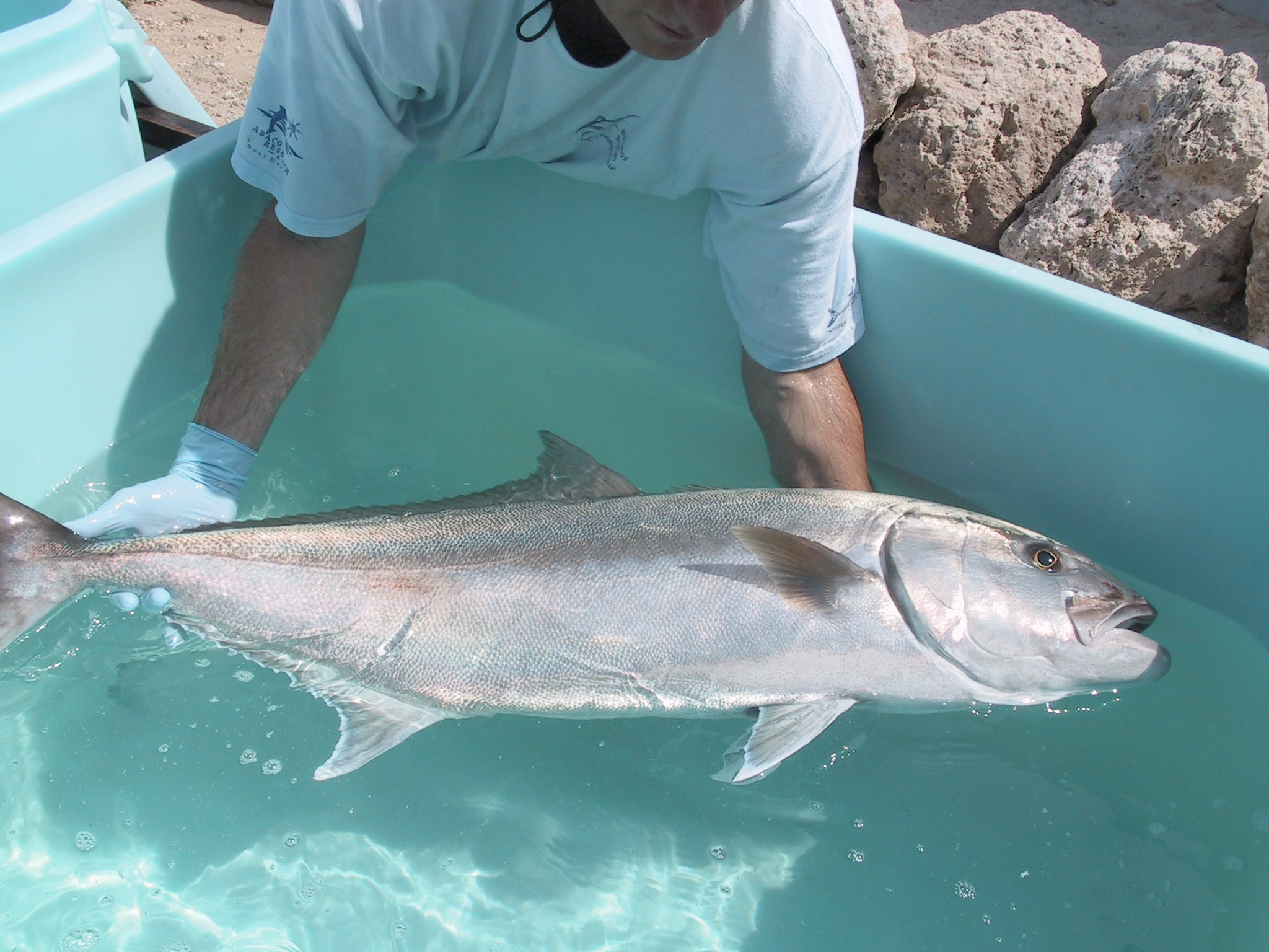 Amberjack broodstock Seriola dumerili upon arrival at the University of Miami aquaculture reasearch laboratory in the Florida Keys Rosenstiel School of Marine and Atmospheric Science